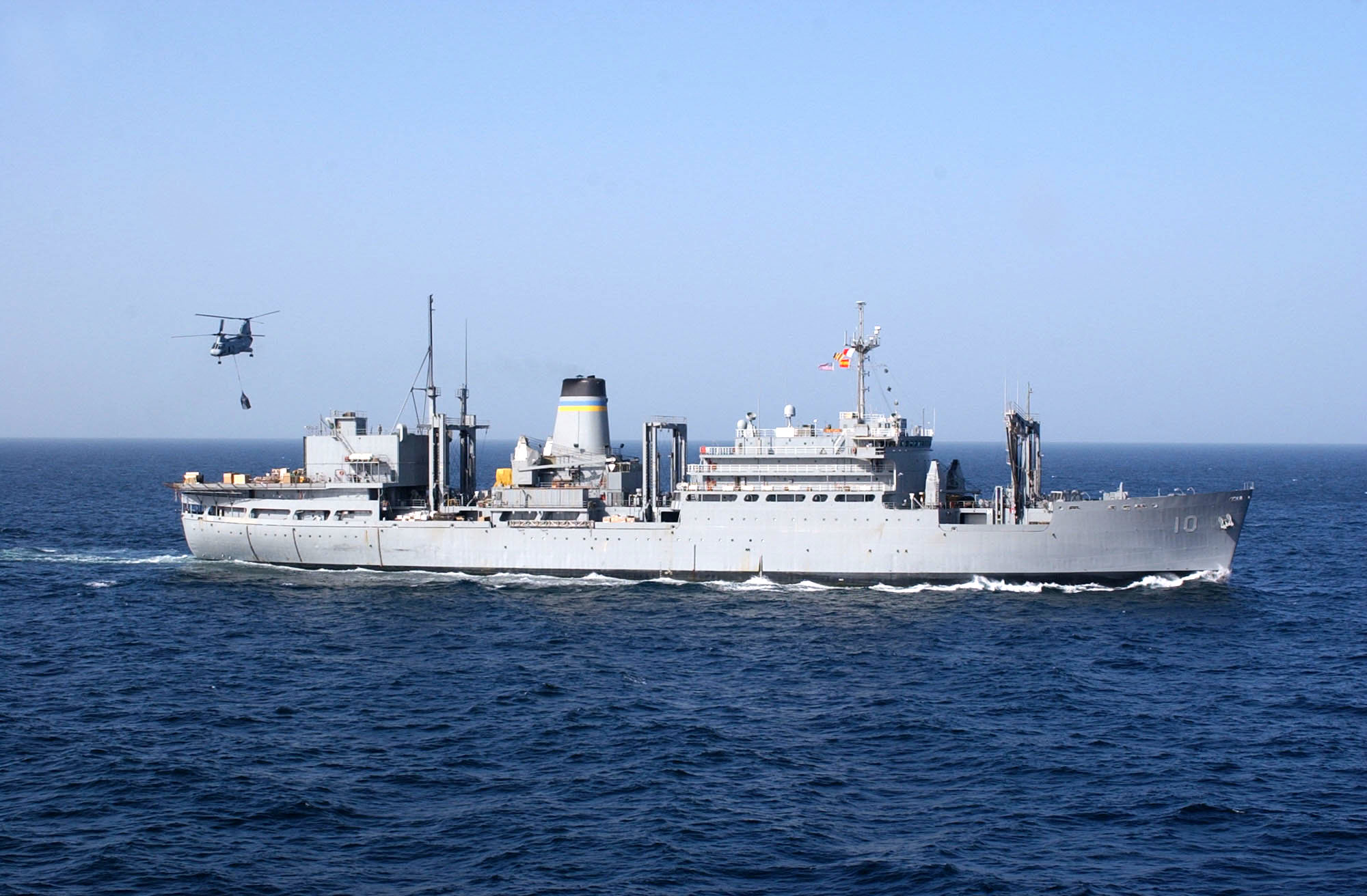 020209-N-1587C-079 At sea with USS John C. Stennis (CVN 74) Feb 9, 2002 -- Loaded with cargo, a CH-46 "Sea Knight" lifts off the deck of the combat stores ship USNS Saturn (T-AFS 10). Saturn and its aviation detachment from Helicopter Combat Support Squadron Eight (HC-8) conducted a vertical replenishment with the aircraft carrier USS John C. Stennis (CVN 74). The ships are deployed and conducting missions in support of Operation Enduring Freedom. U.S. Navy photo by Photographer's Mate 3rd Class Alta I. Cutler. (RELEASED)